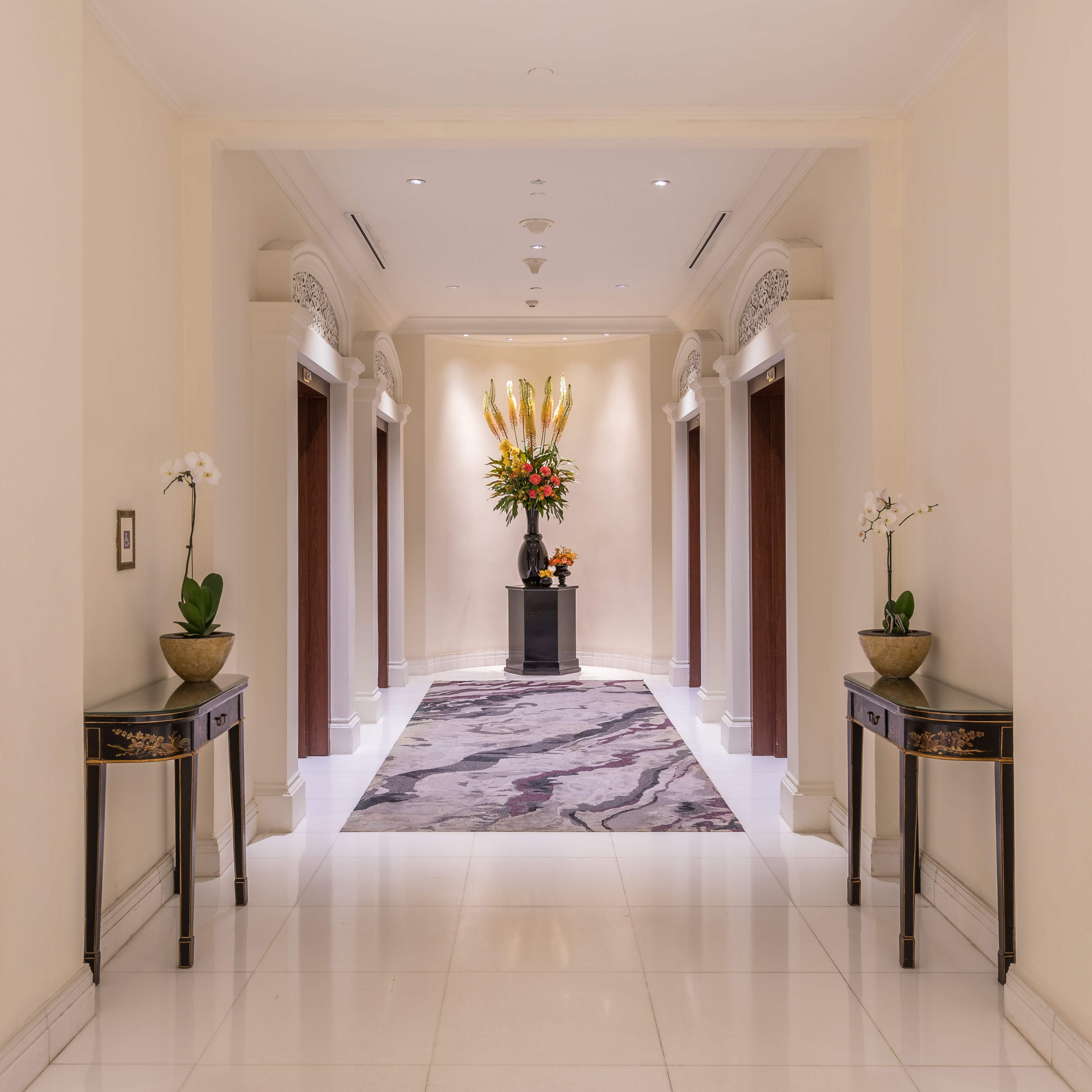 Elevators vestibule with flower bouquets at InterContinental Hotel, Singapore